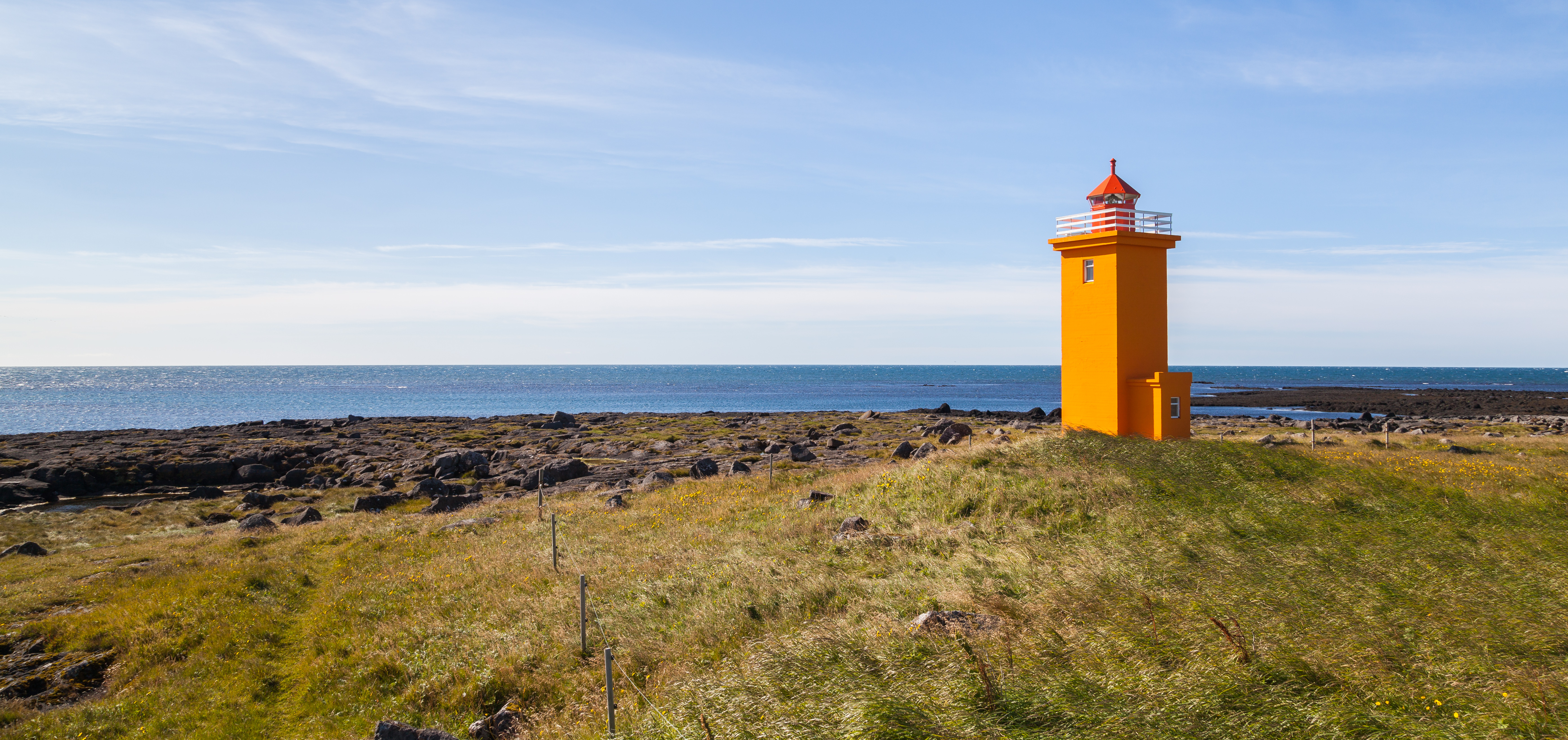 Stafnes lighthouse, Suðurnes, Iceland